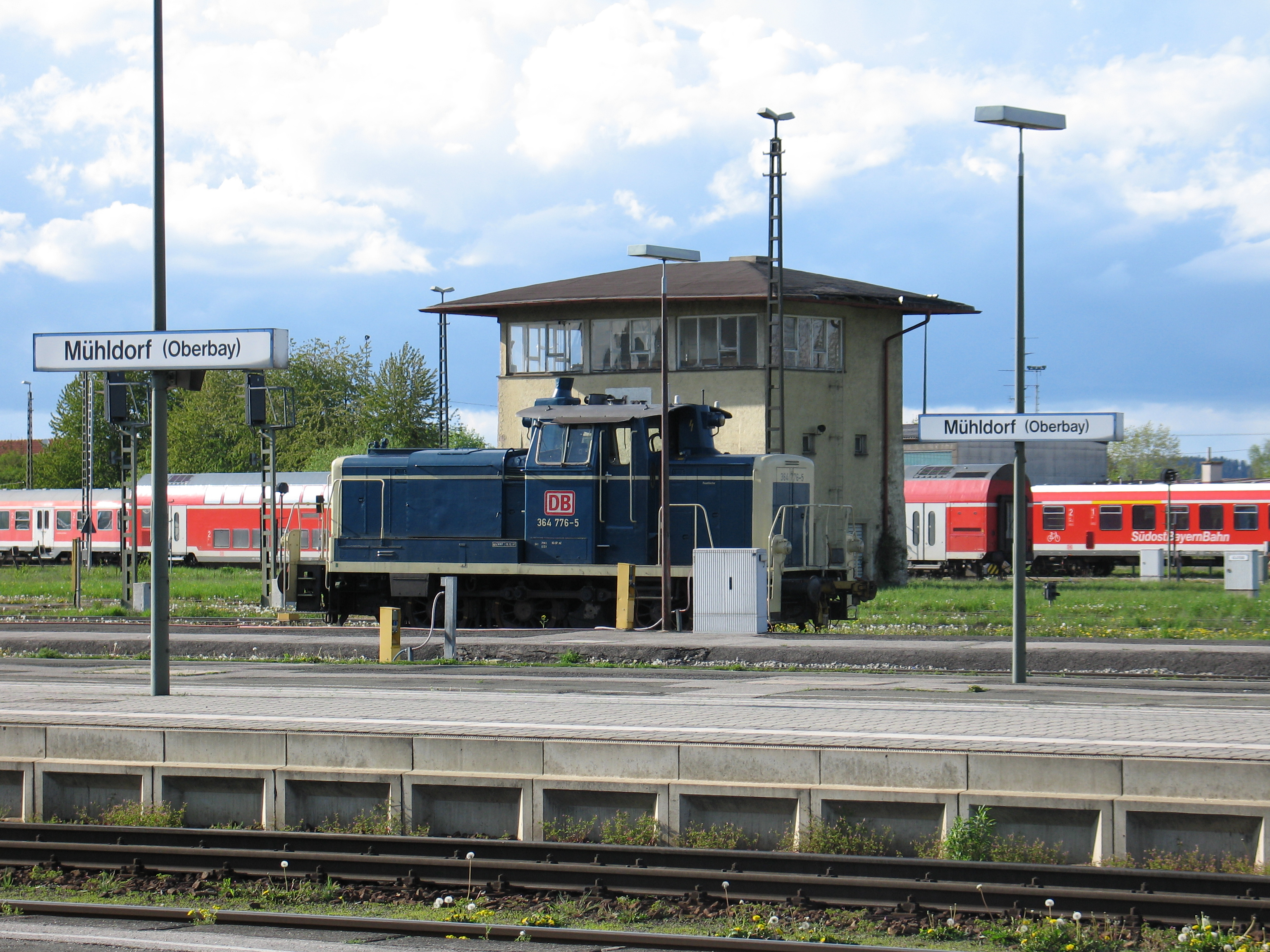 a blue German V 60 at the train station Mühldorf in Bavaria